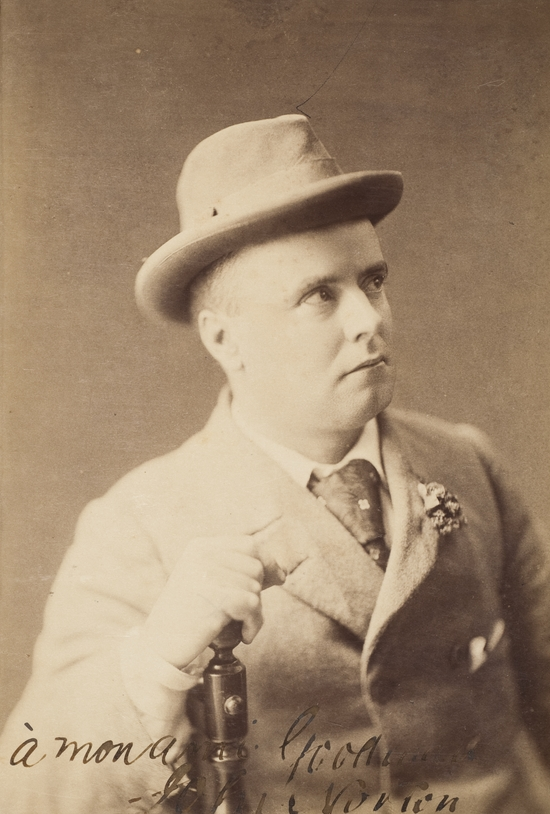 John Norton, owner and editor of the Sydney Sportsman 1898